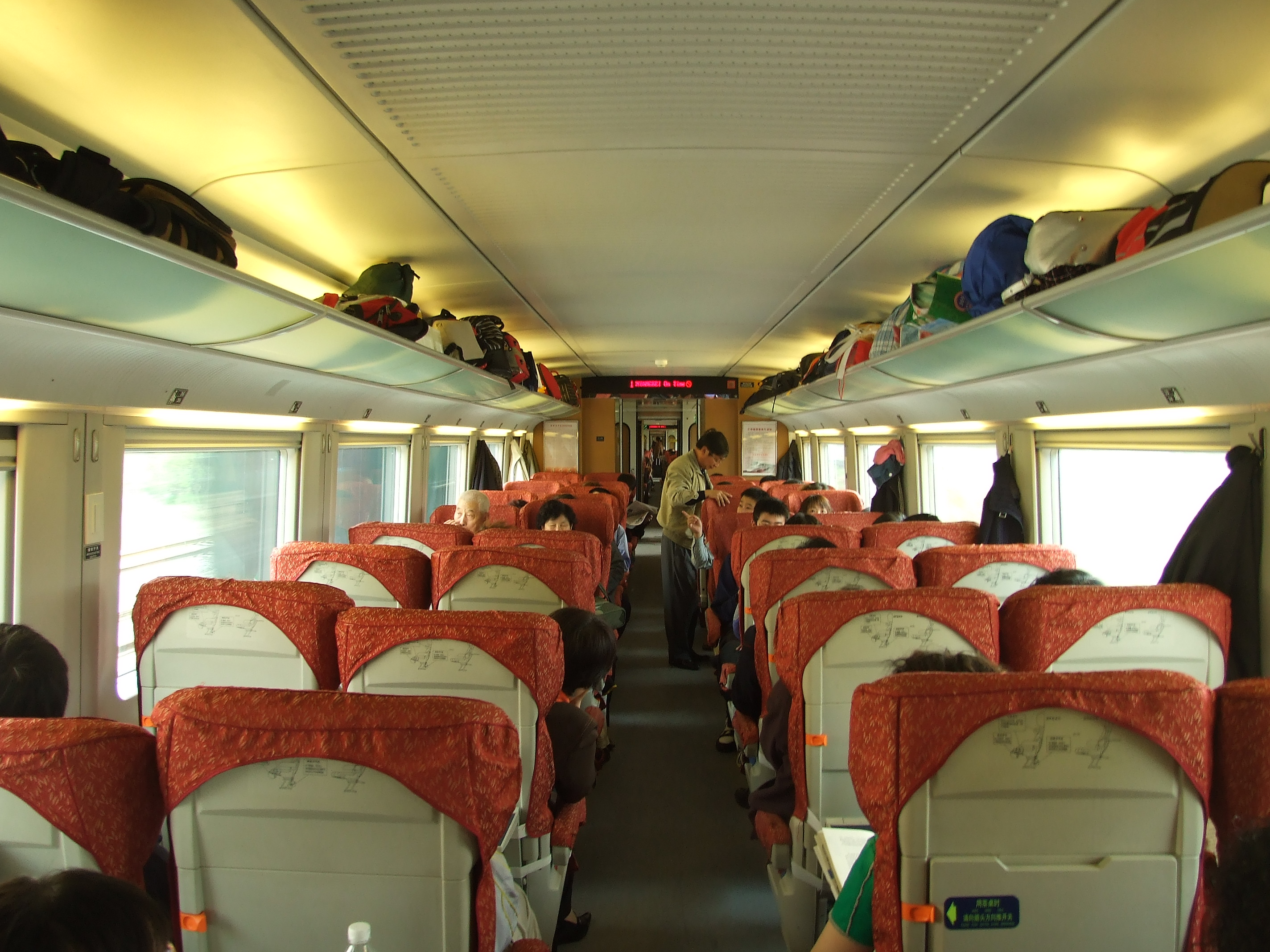 Inside of the Changbaishan Electric multiple unit. 中文（中国大陆）: 长白山电动车组内部。